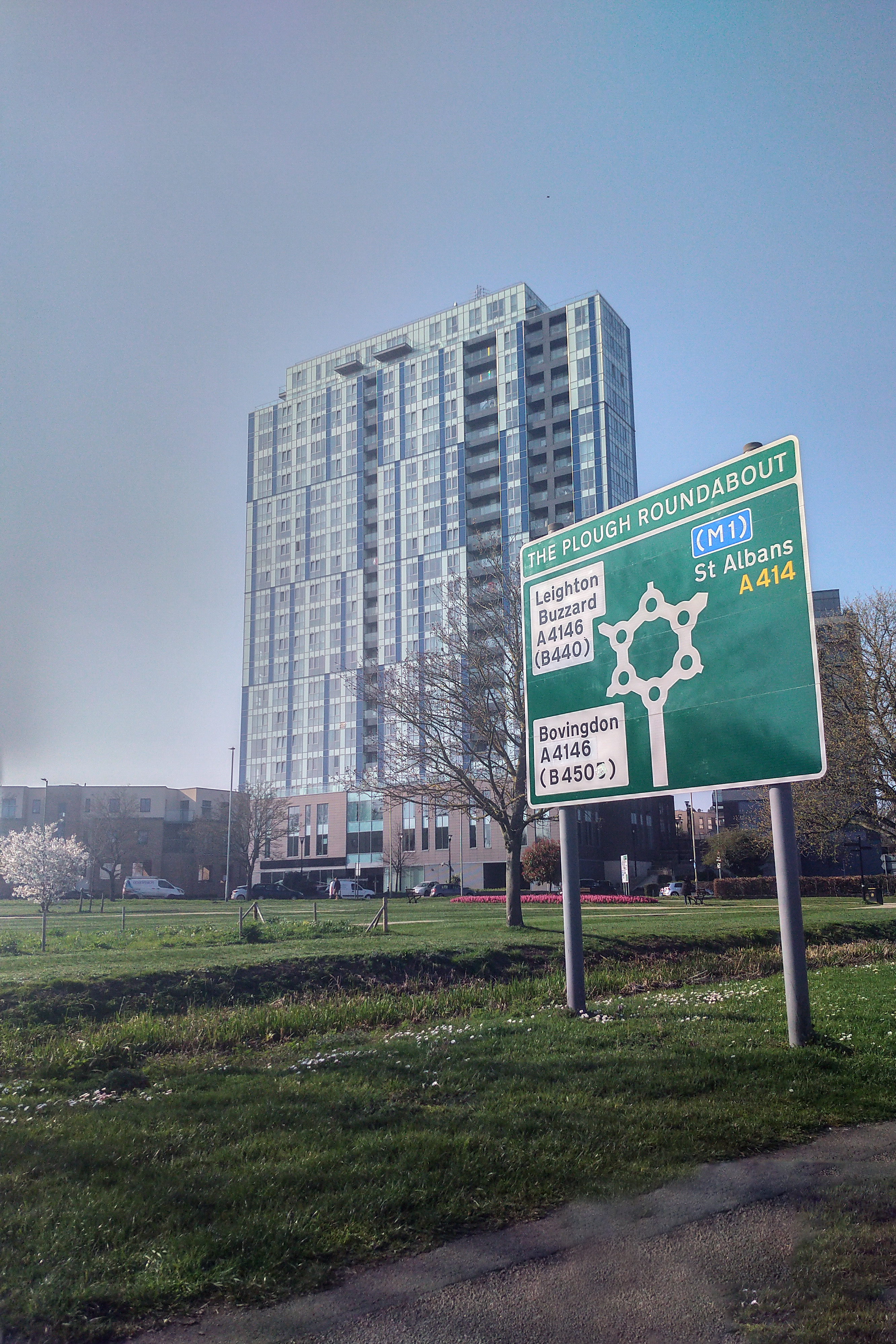 Two landmarks of Hemel Hempstead - the KD Tower (previously Kodak's HQ) seen from the Magic Roundabout.